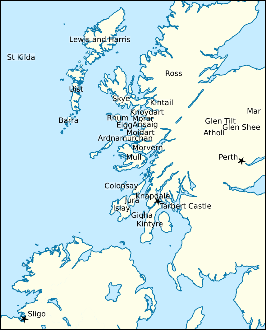 Locations mentioned in the Wikipedia article concerning Raghnall Mac Ruaidhrí (died 1346).